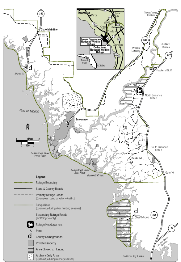 From